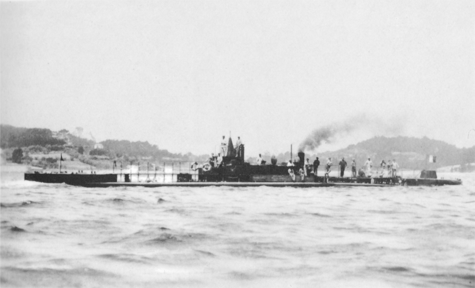 The French submarine Charles Brun, launched 1910. Description from Francis Dousset: Les Navires du Guerre Francais, page 219.